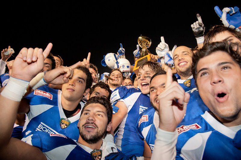 Equipo de Borregos